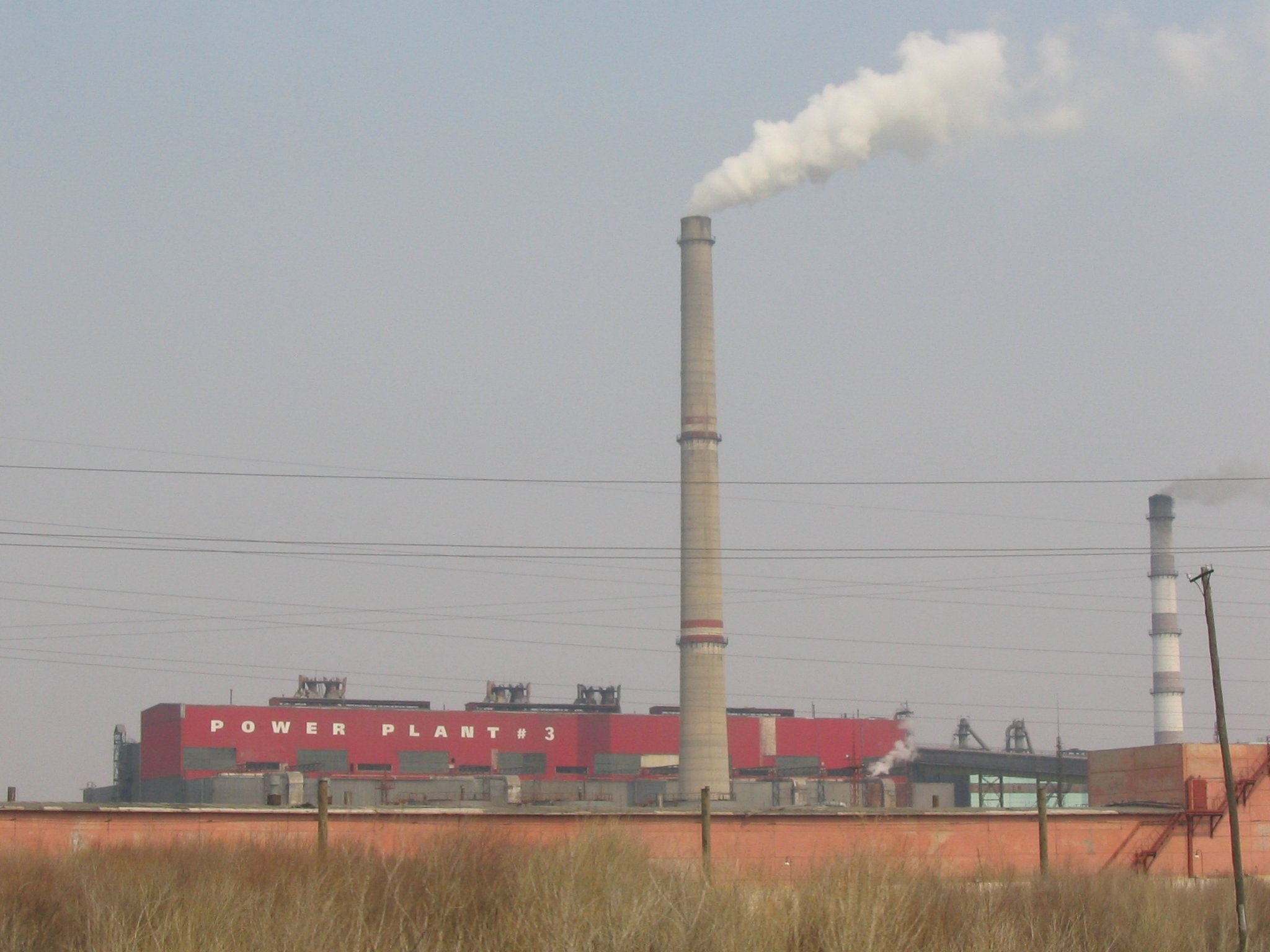 A power plant ("Power Plant #3") on the outskirts of Ulaanbaatar, Mongolia. Looks like it was from the Soviet period.